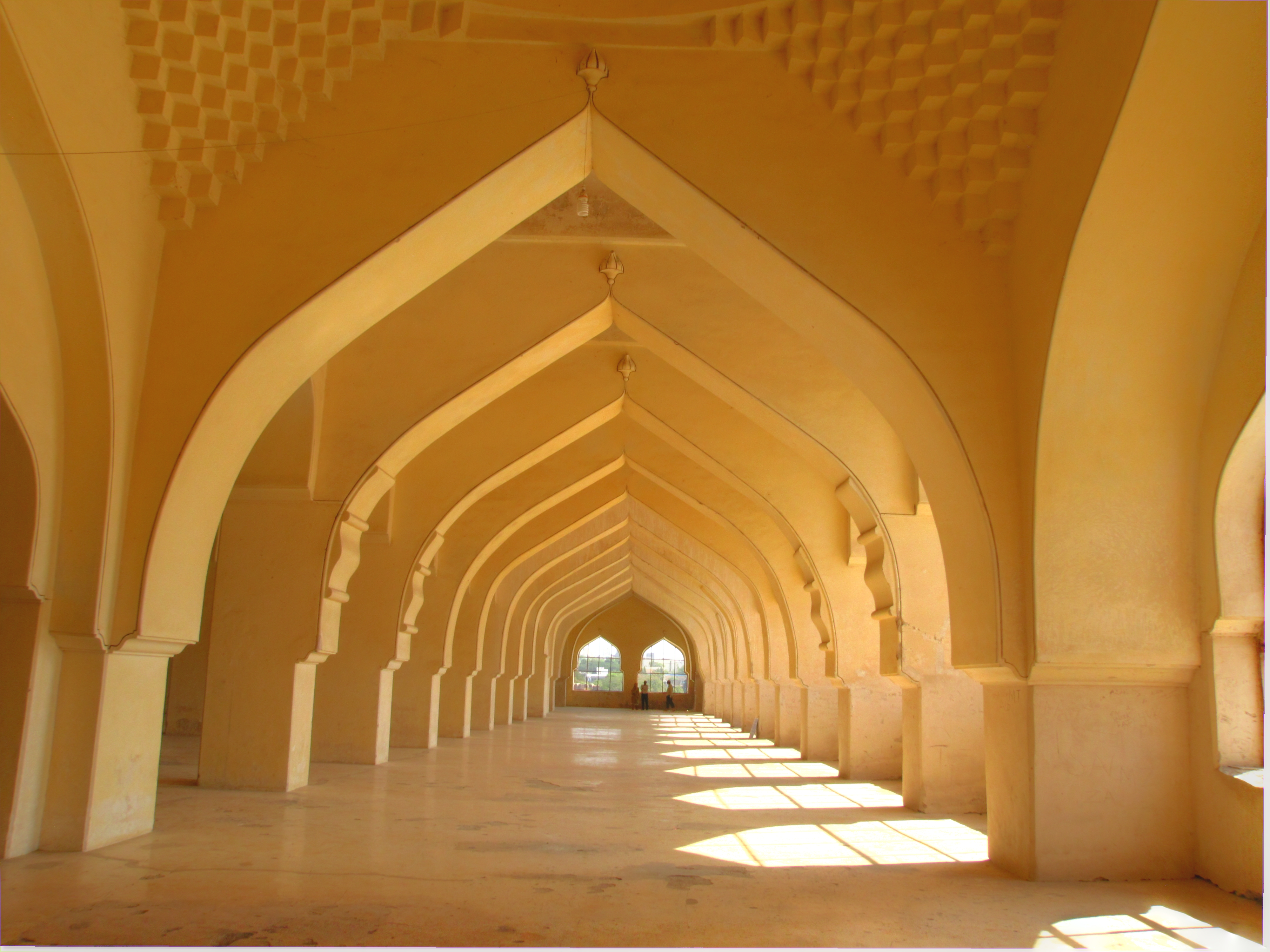 Jama Masjid Gulbarga is Mosque located in Gulbarga City, Karnataka, India.